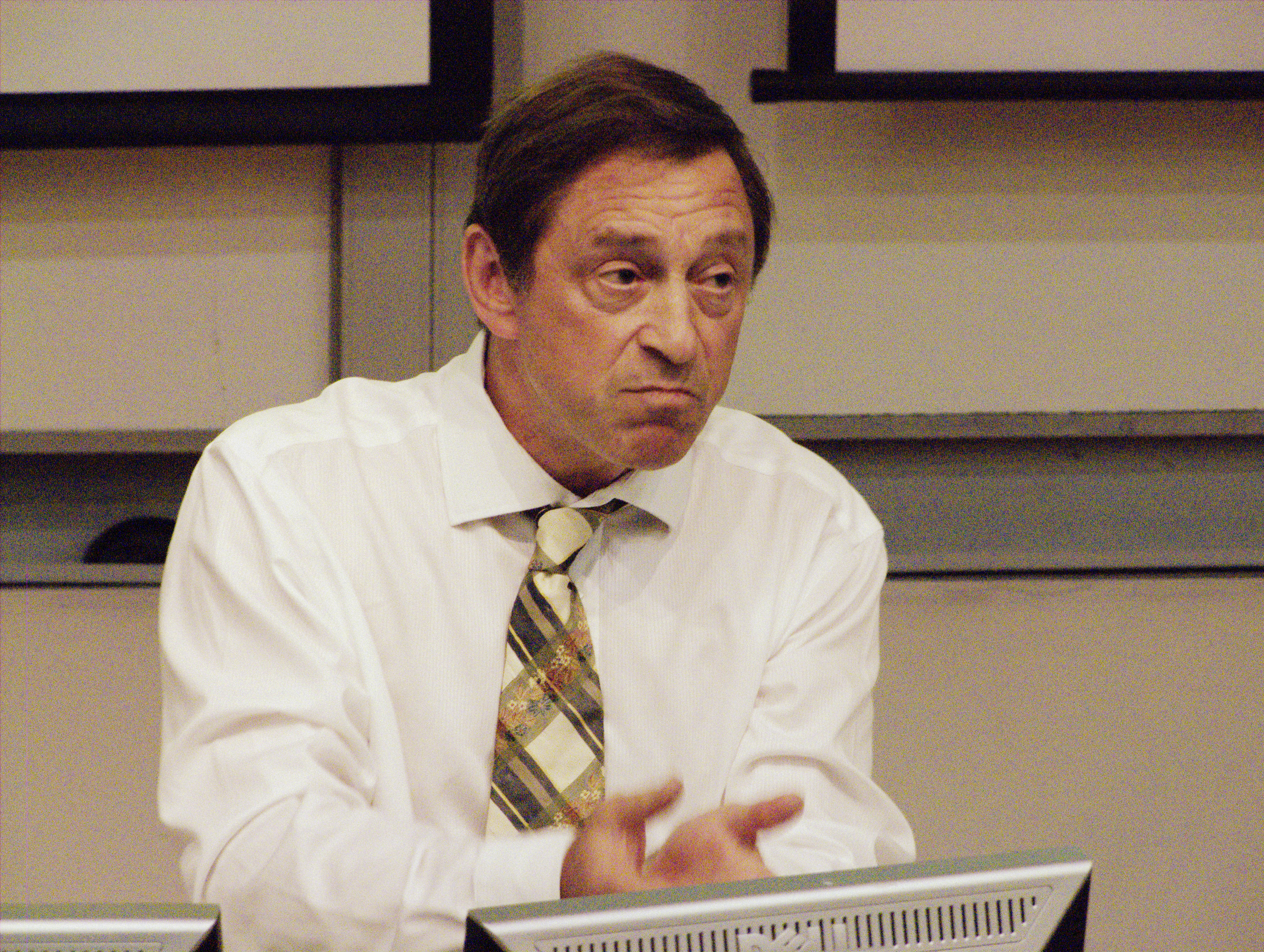 Public Lecture, February 2014